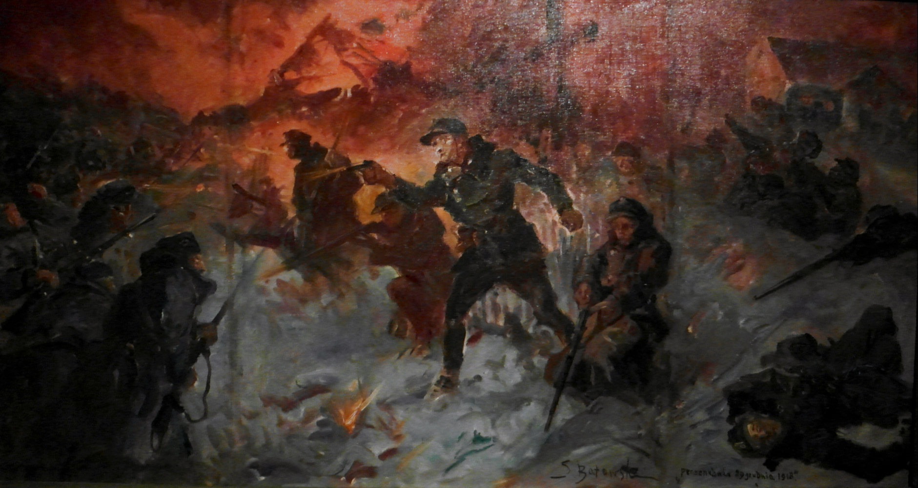 Postrzelenie ppor. Józefa Mazanowskiego w obronie Persenkówki 28 grudnia 1918. Obraz Stanisława Batowskiego.